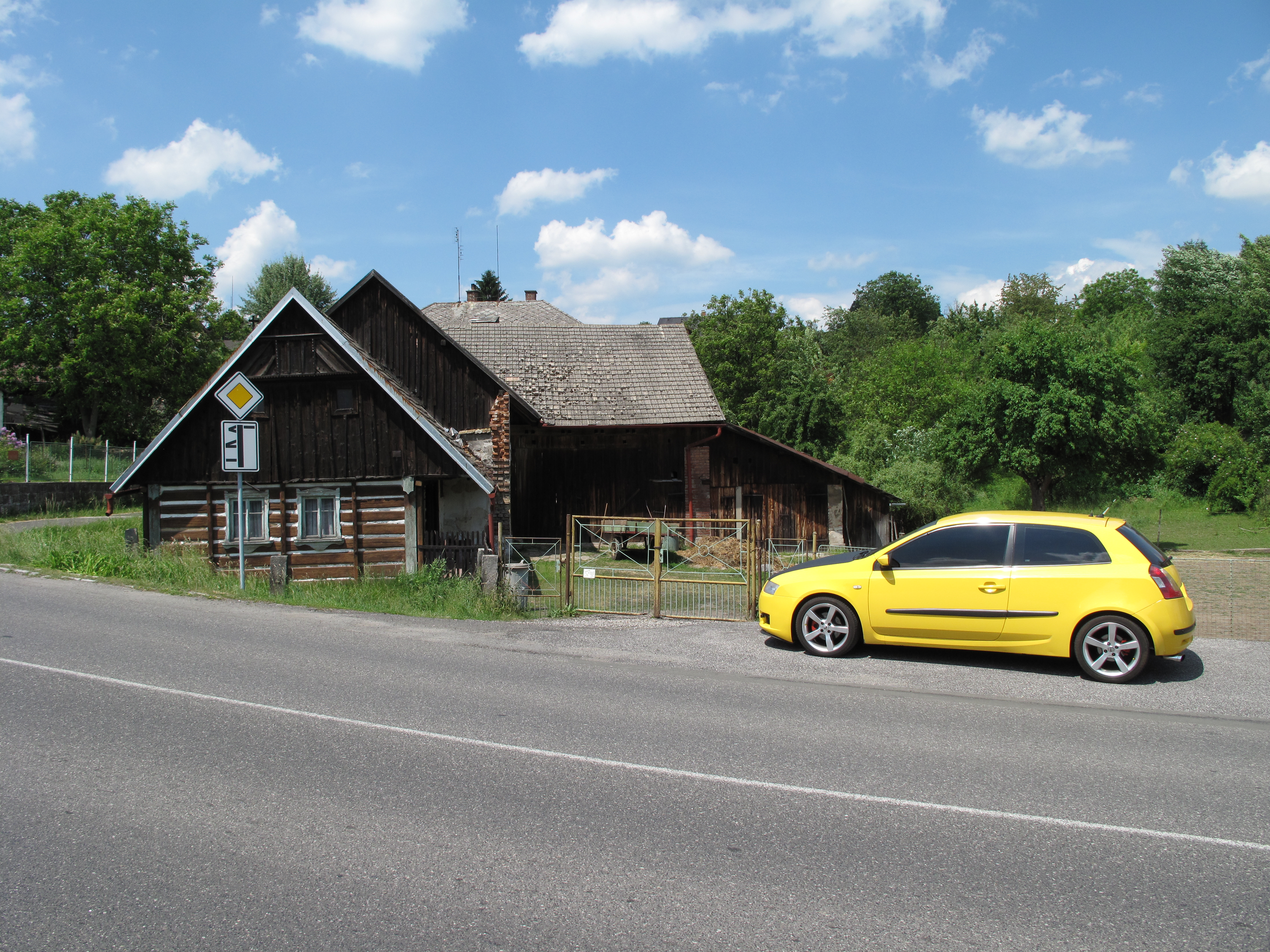 House and the yellow car in Lesktov village (Radostná pod Kozákovem municipality), Semily District, Czech Republic.